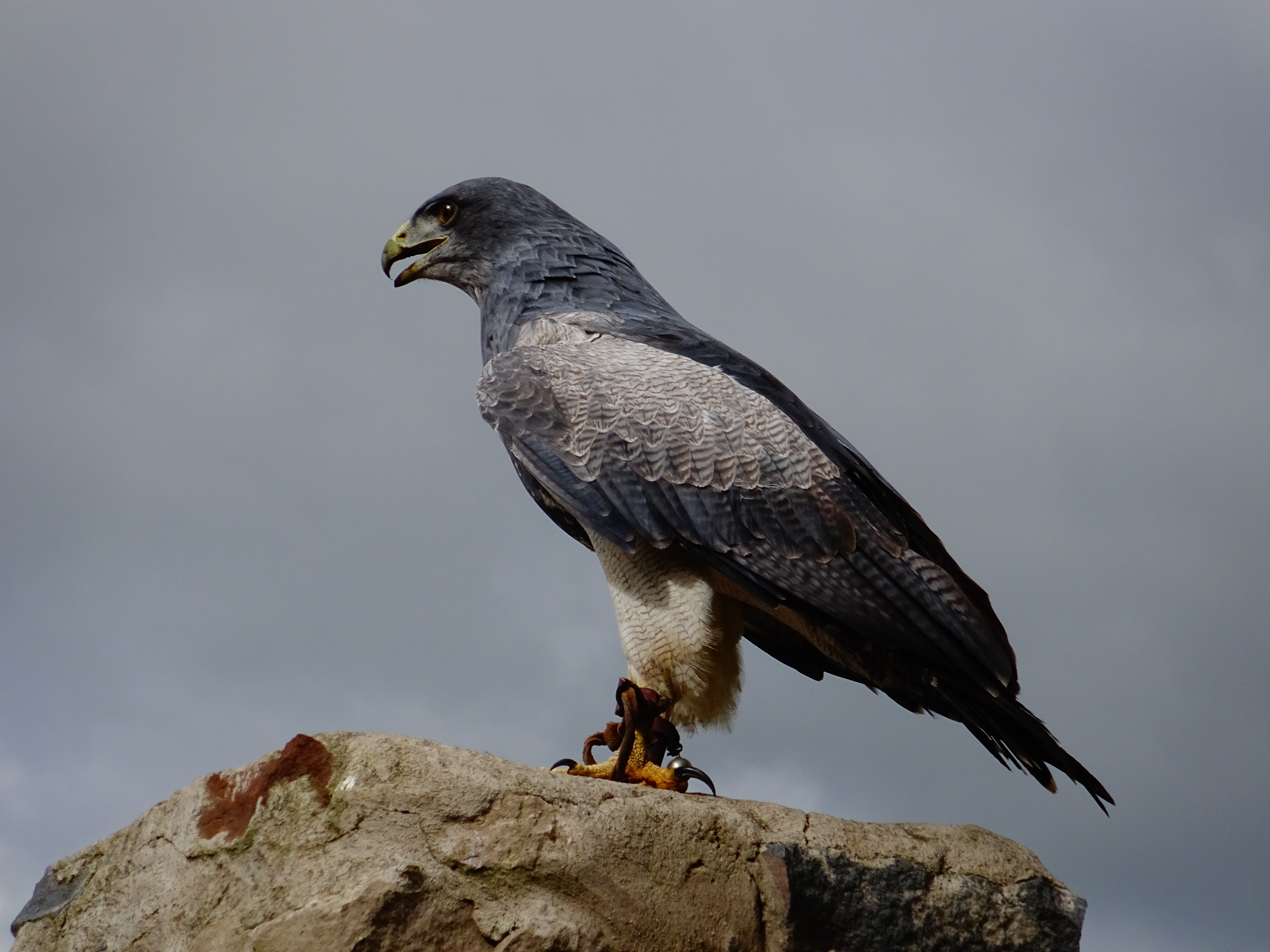 Black-chested buzzard-eagle in Ecuador